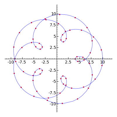 made with Sage; code is as follows: # Five-petaled epitrochoid via splining the points: # Draw an epitrochoid, fixed circle radius R, rotating circle # of radius r, pen at distance d from center of rotating circle. R = 5 r = 2 d = 3 rotations = ((R + r) / r).denom v = step = 0.2 for t in srange(0, 2 * pi * rotations, step): v.append(((R + r) * cos(t) - d * cos(((R + r) / r) * t), (R + r) * sin(t) - d * sin(((R + r) / r) * t))) x_spline = spline([(RDF(i) / len(v), v[i][0]) for i in range(len(v))] + [(1, v[0][0])]) y_spline = spline([(RDF(i) / len(v), v[i][1]) for i in range(len(v))] + [(1, v[0][1])]) show(points(v, rgbcolor=(1, 0, 0), pointsize=10) + parametric_plot((x_spline, y_spline), (x, 0, 1), thickness=0.5), figsize=[4, 4], ticks=[2.5, 2.5], xmin=-10)